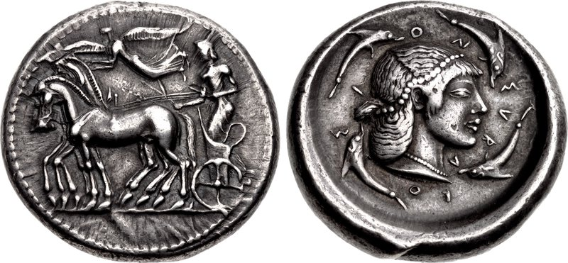 SICILY, Syracuse. Gelon I. 485-478 BC. AR Tetradrachm (26.5mm, 17.33 g, 6h). Struck circa 480-478 BC. Charioteer, holding kentron in right hand, reins in left, driving slow quadriga left; above, Nike, with wings spread, flying left, crowning horses / Head of Arethousa right, wearing pearl tainia and necklace; s¨∞-A-˚o-s-5-o˜ and four dolphins around. Boehringer Series VIa, 76 (V36/R51); HGC 2, 1306 var. (obv. type right); SNG ANS 19; Bement 456; Jameson 747; Pozzi 561 (all from the same dies). Near EF, attractive cabinet tone. Fine late archaic style. Rare with obverse type left.